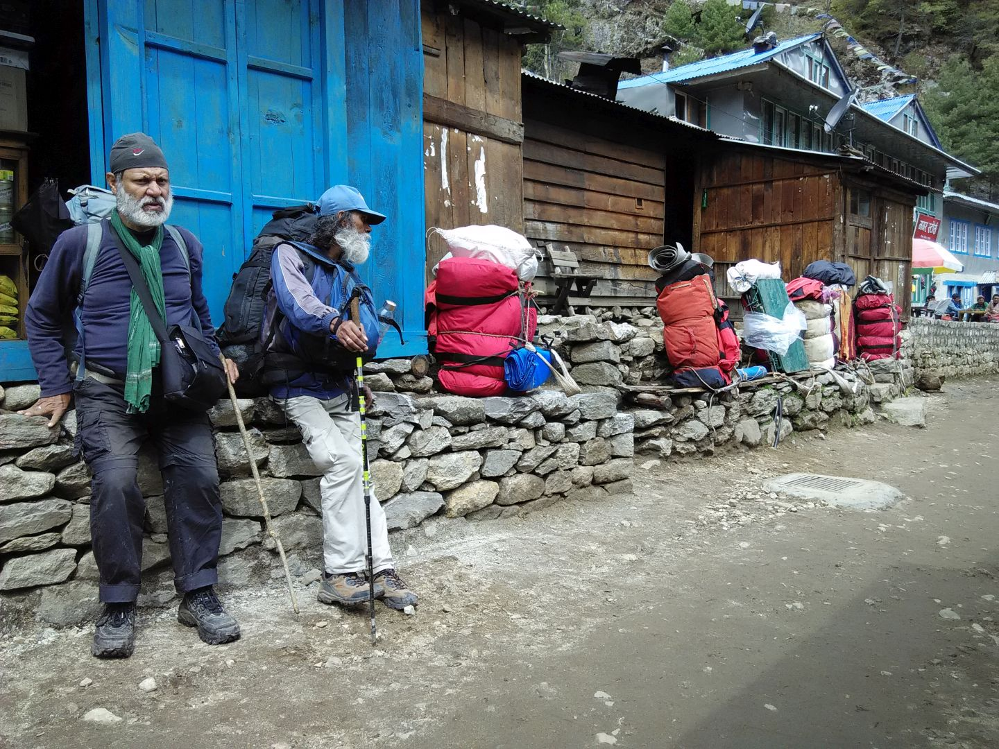 Short Rest on Everest Base Trail